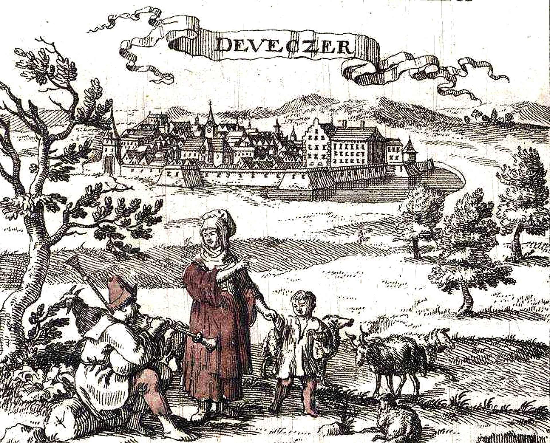 Devecser on a 18. century engrave